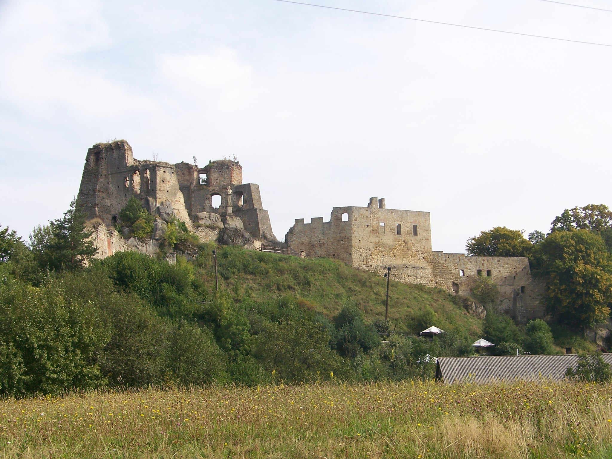 Kamieniec Castle, Poland